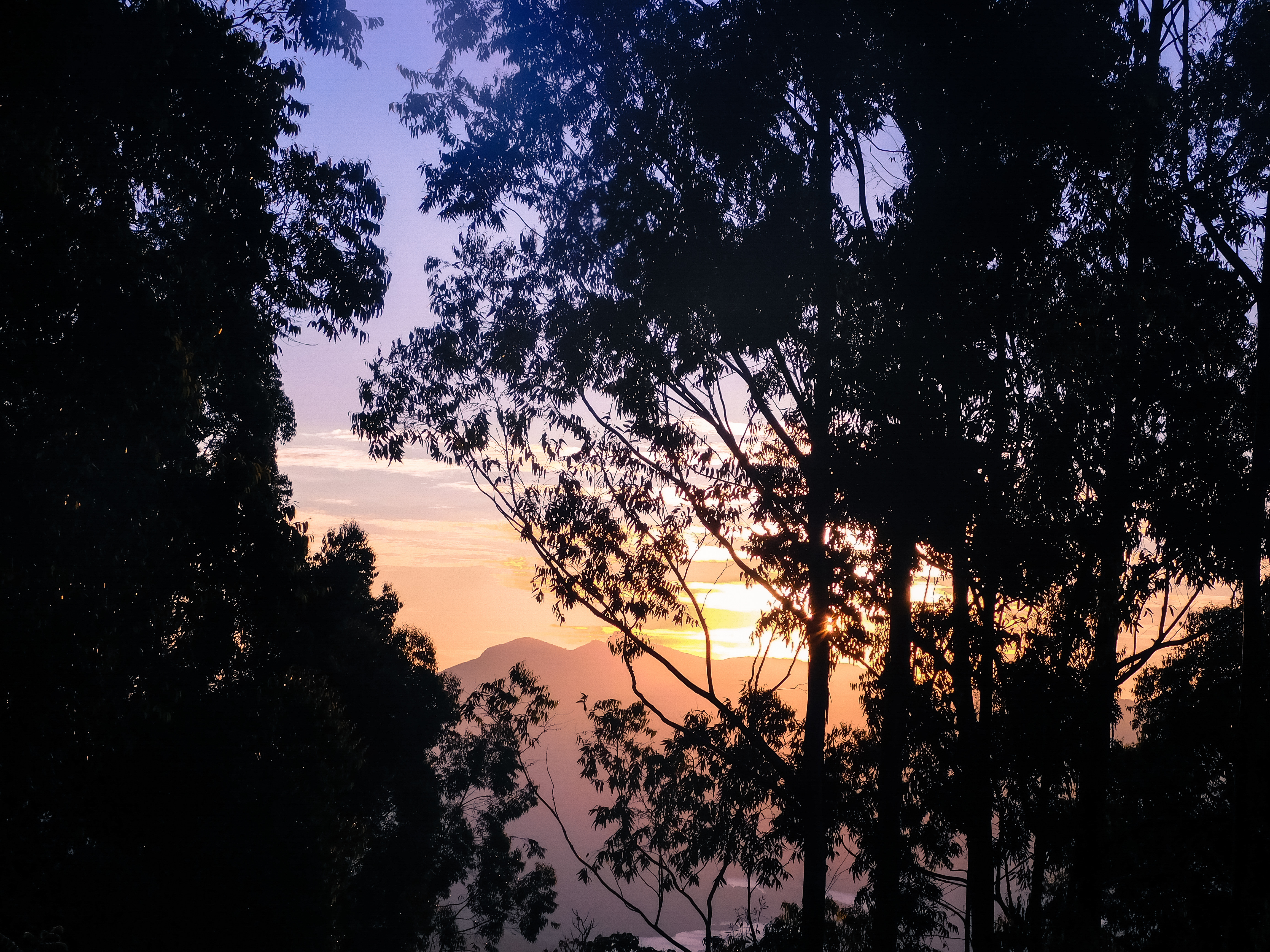 The image depicts a beautiful sun rising scene beyond the trees and hills in the picturesque hill station of Munnar.